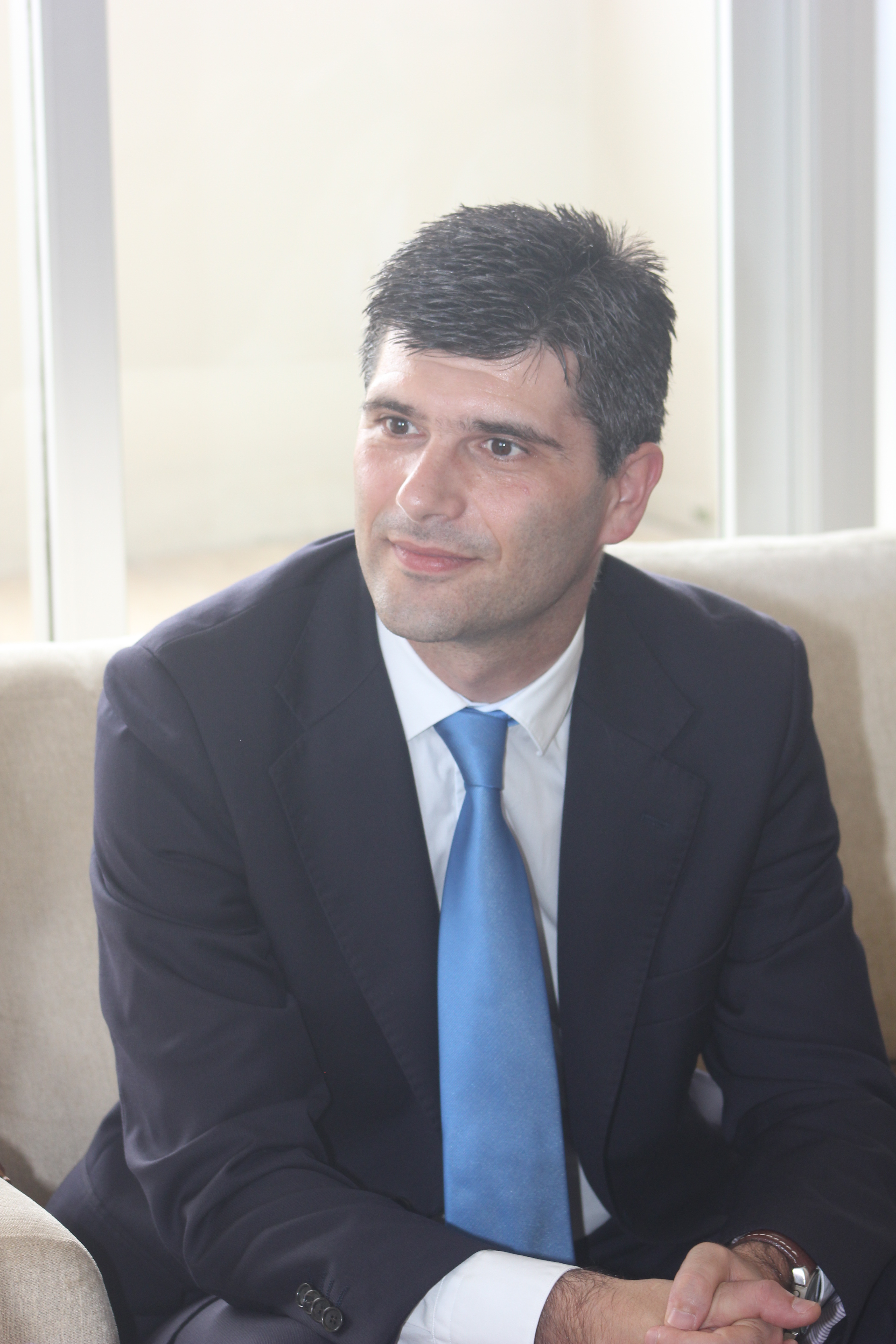 Alexandre Faria. President of the directive board of Grupo Desportivo Estoril Praia.